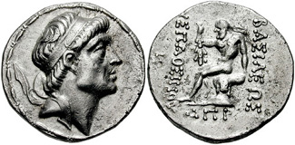 Coins of the Parthian vassal king Hyspaosines